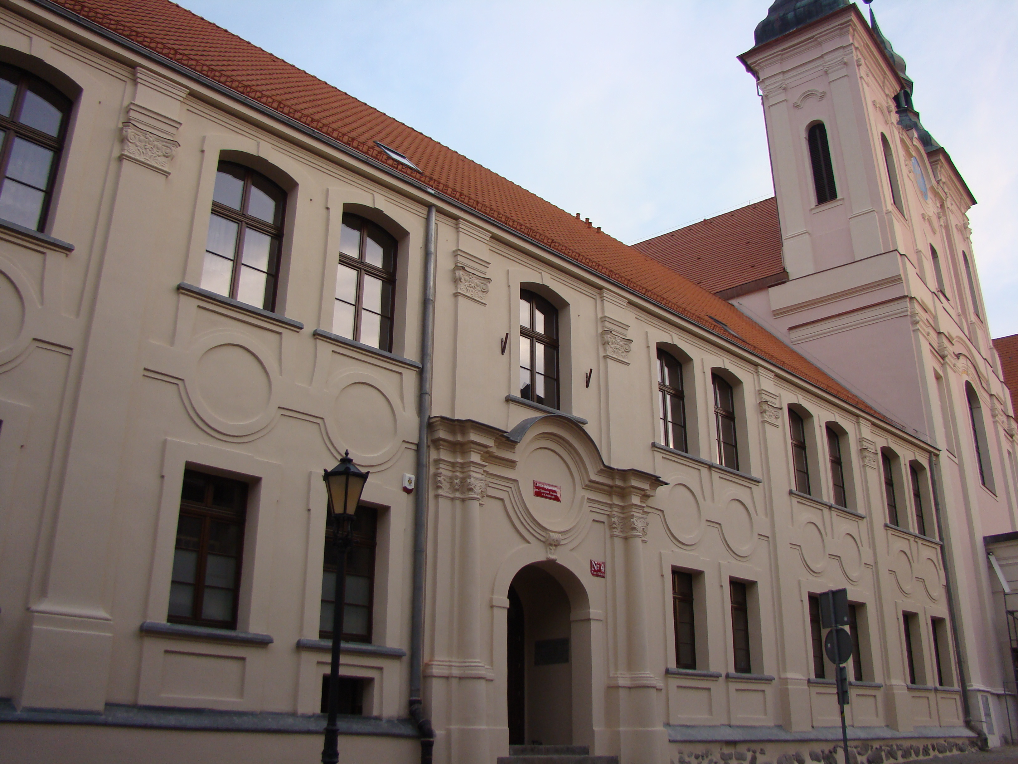 High School in Chojnice